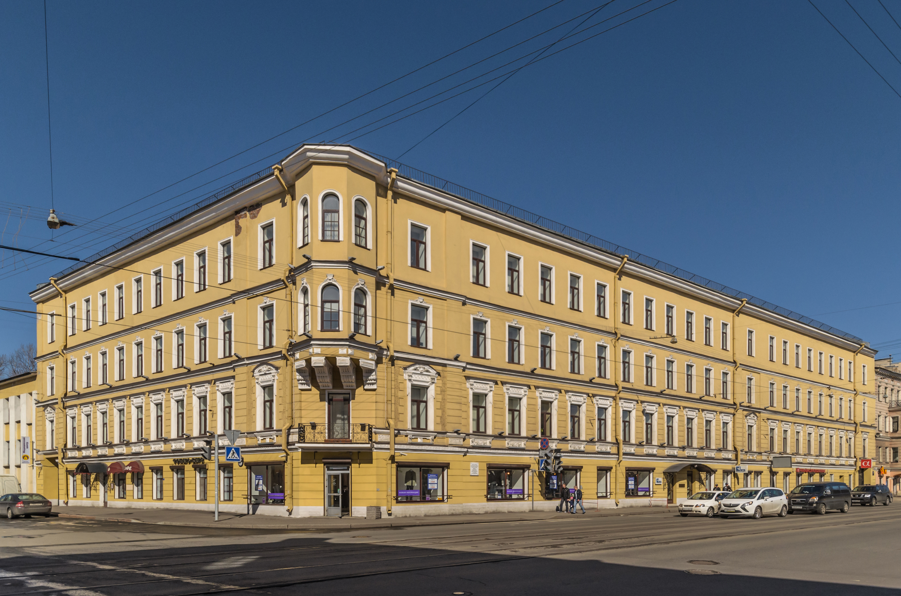 Ponomaryov apartment house - Dostoevsky School at Staro-Petergofsky Avenue in Saint Petersburg